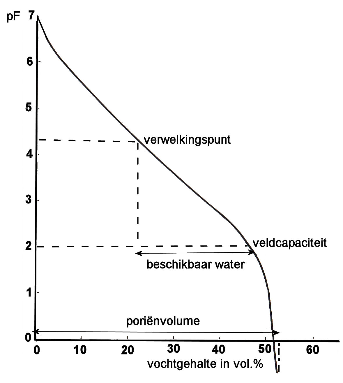 pF curve